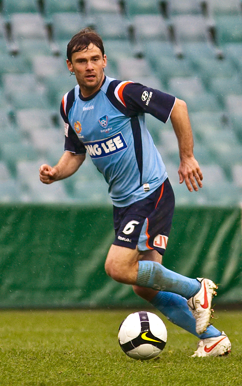 Karol Kisel playing for Sydney FC in a pre-season friendly.